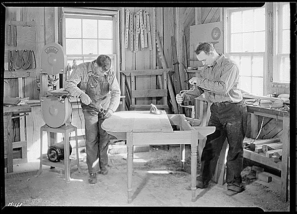 Dick Whaley (1910–1998) and Charles Huskey (1909–1992) at the Woodcrafters and Carvers shop in Gatlinburg, Tennessee, USA. The shop was established by O.J. Mattil, a teacher at the Pi Beta Phi Settlement School, in the late 1920s. Caption: "Shop of the Woodcrafters and Carvers, Gatlinburg, Tennessee. Dick Whaley, Manager, and Charley Huskey carry on this little rural shop and employ at times several of the local workers. This view of the shop shows them working on a drop-leaf table.", 11/14/1933."